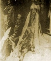 Naguib el-Rihani and Badi'a Massabna from a scene in a play entitled "Al-Shater Hassan", which played in 24 May 1923.